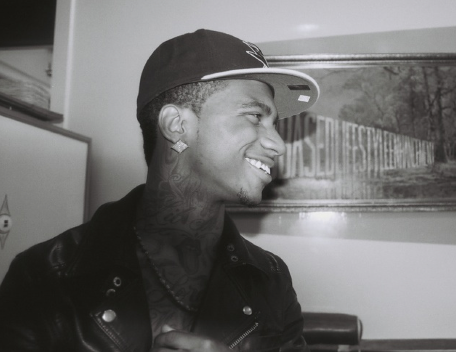 Lil B in February 2011